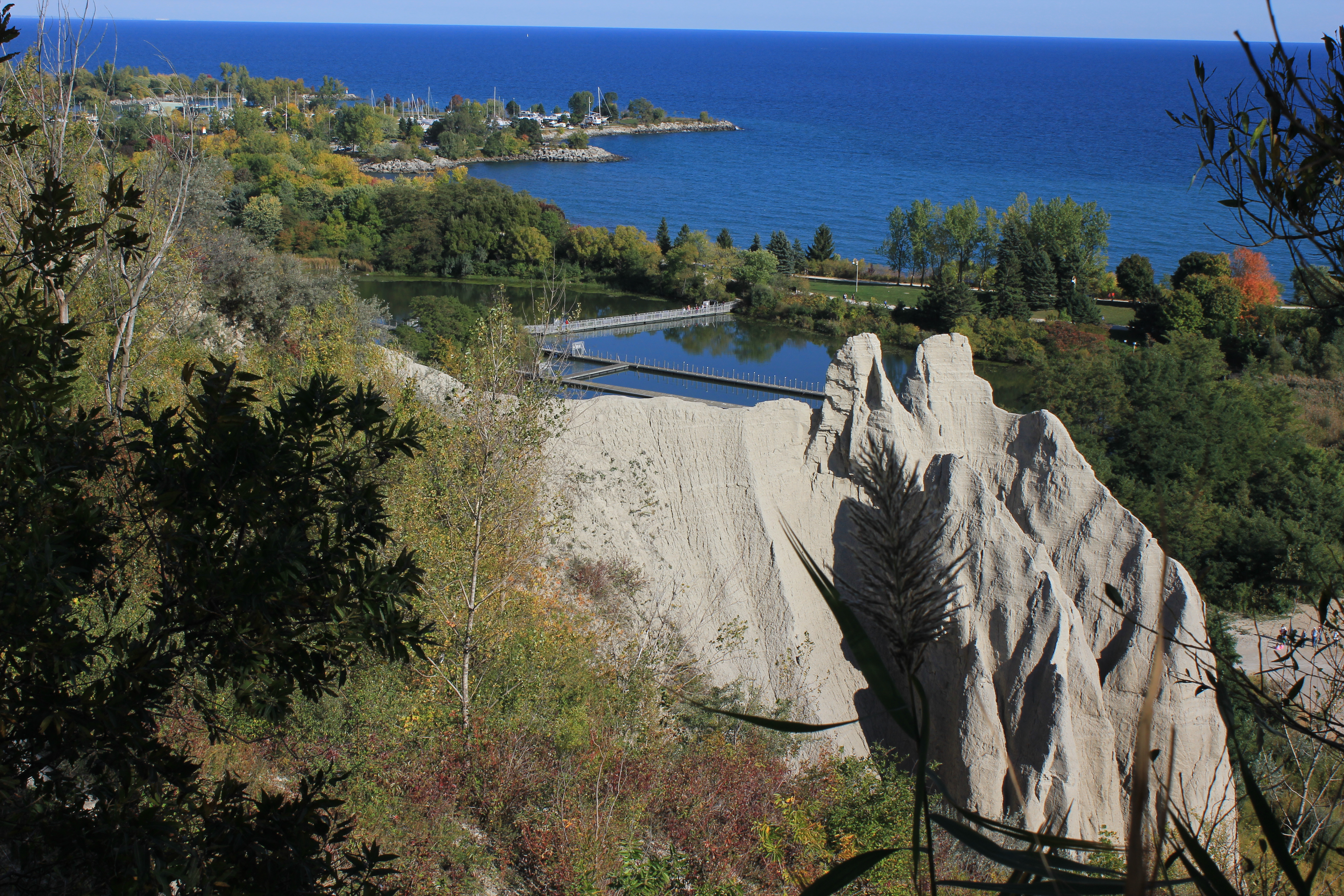 Scarborough Bluffs and Bluffers Park. Scarborough, Toronto, Ontario, Canada